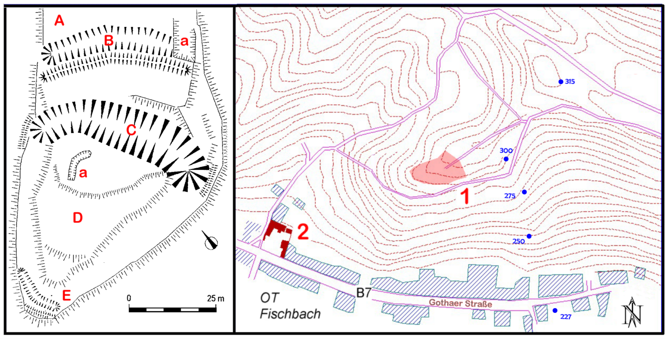 Map of the Malittenburg a castle in Eisenach